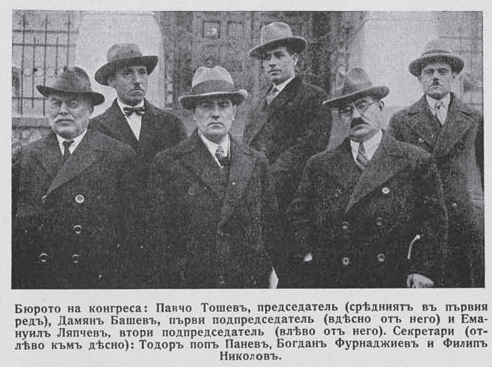 Activists of macedonian diaspora in Bulgaria